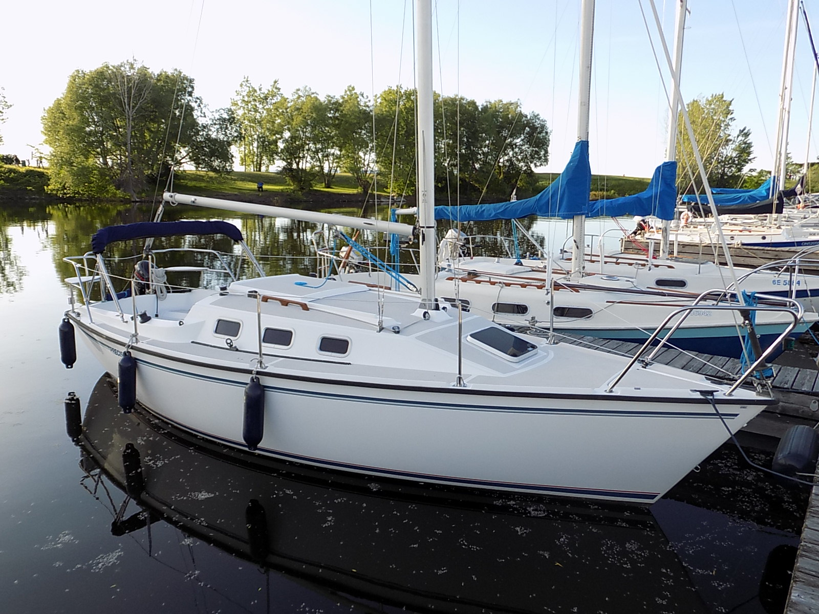 A Precision 23 sailboat named Escape